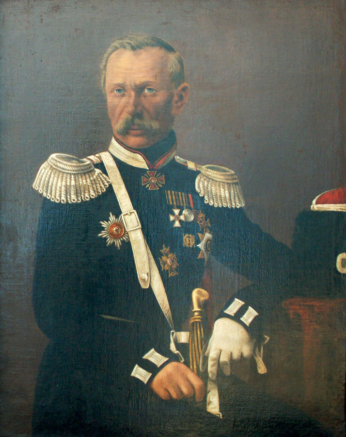 photograph of the portrait of Russian lieutenant general Krasnov, Ivan Ivanovich (original oil painting of 1860s from the collection of the Alferaki Palace in Taganrog, Russia